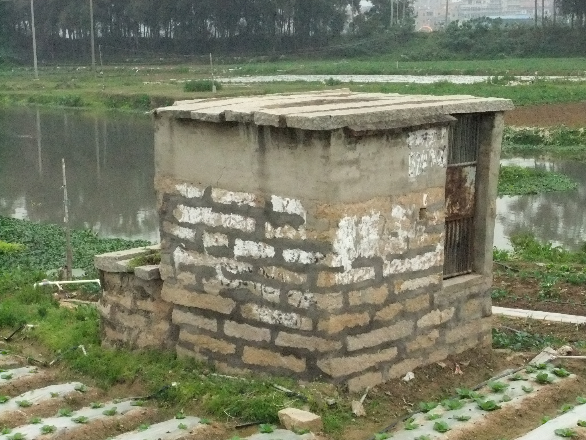 Farmers' fields in Xiang'an District, off Hwy X444, somewhere between downtown Xindian Towna and Xilin village. Note the use of solid slabs of granite for farm buildings, fence posts, etc; this is fairly common in the region.